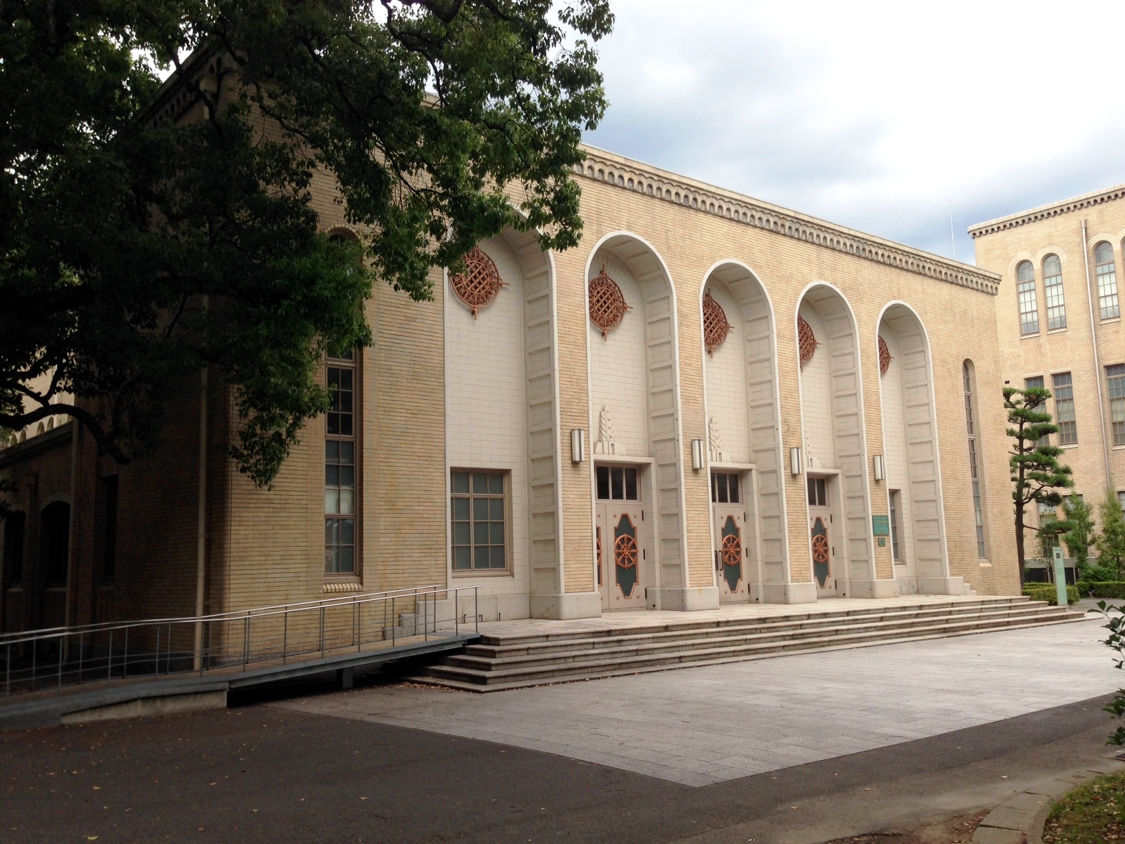 kobeuniv_idemitsu_kinenkan